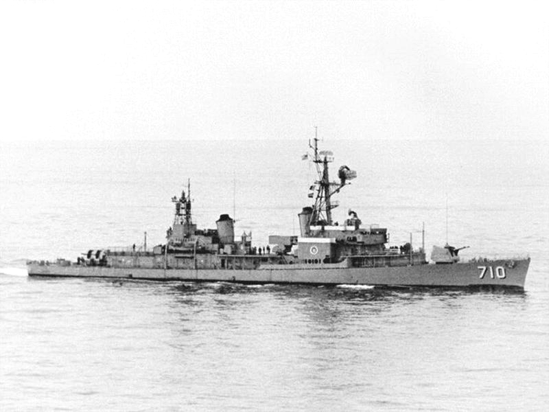 The U.S. Navy destroyer USS Gearing (DD-710) underway at sea on 27 January 1967.